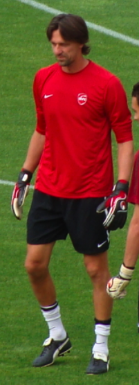 Grégory Wimbée (Valenciennes FC)